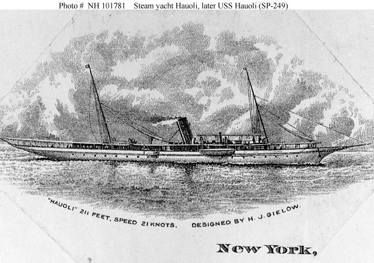 Photo #: NH 101781 Hauoli (U.S. Steam Yacht, 1903) Engraving, probably depicting her as originally built. Later named California, she was acquired by the U.S. Navy on 18 August 1917 and commissioned the following 24 December as USS California (SP-249). She was renamed USS Hauoli on 18 February 1918, was stricken from the Navy list on 16 September 1919 and sold on 7 September 1920. The original print is in National Archives' Record Group 19-LCM. U.S. Naval Historical Center Photograph.